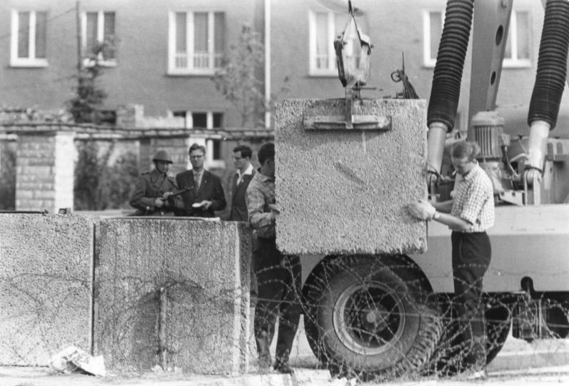 Construction of the Berlin wall with concrete blocks. A crane surrounded in barbed wire stands in the foreground.